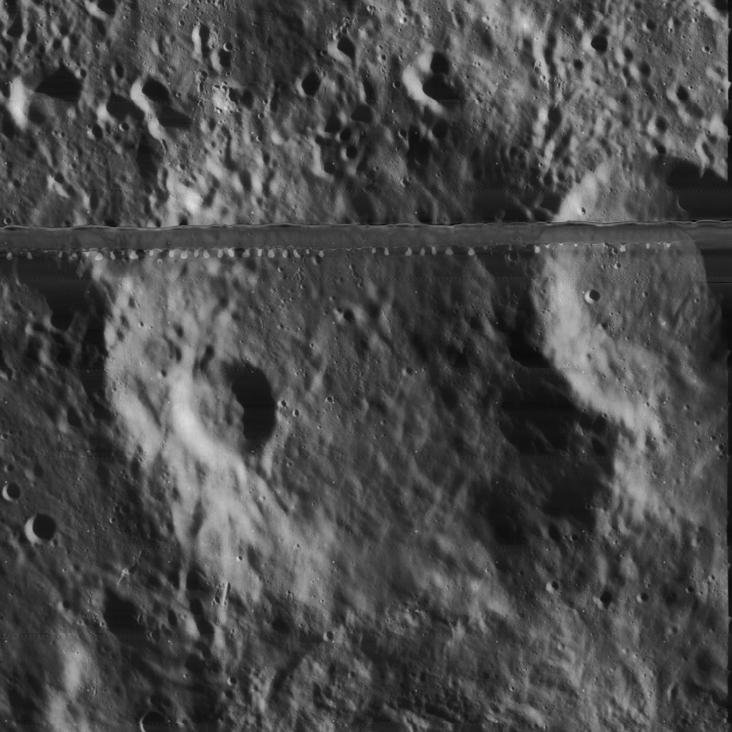 Gruemberger crater, on the moon. Horizontal band above center is blemish on original.